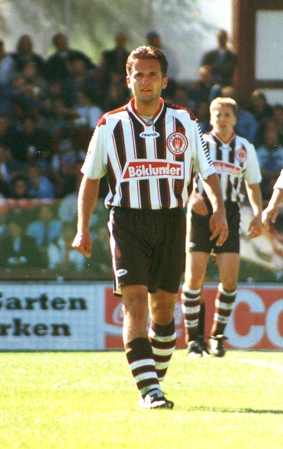 Thomas Sobotzik as Player of FC St.Pauli